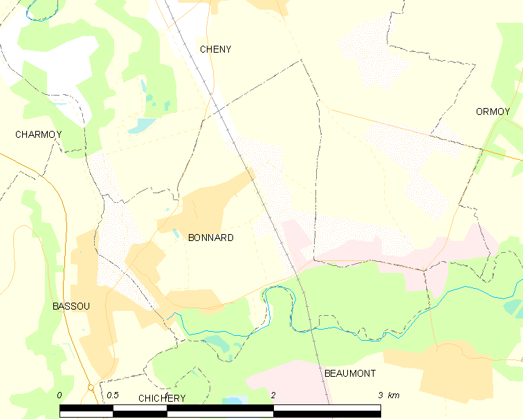 Map of French municipality Bonnard